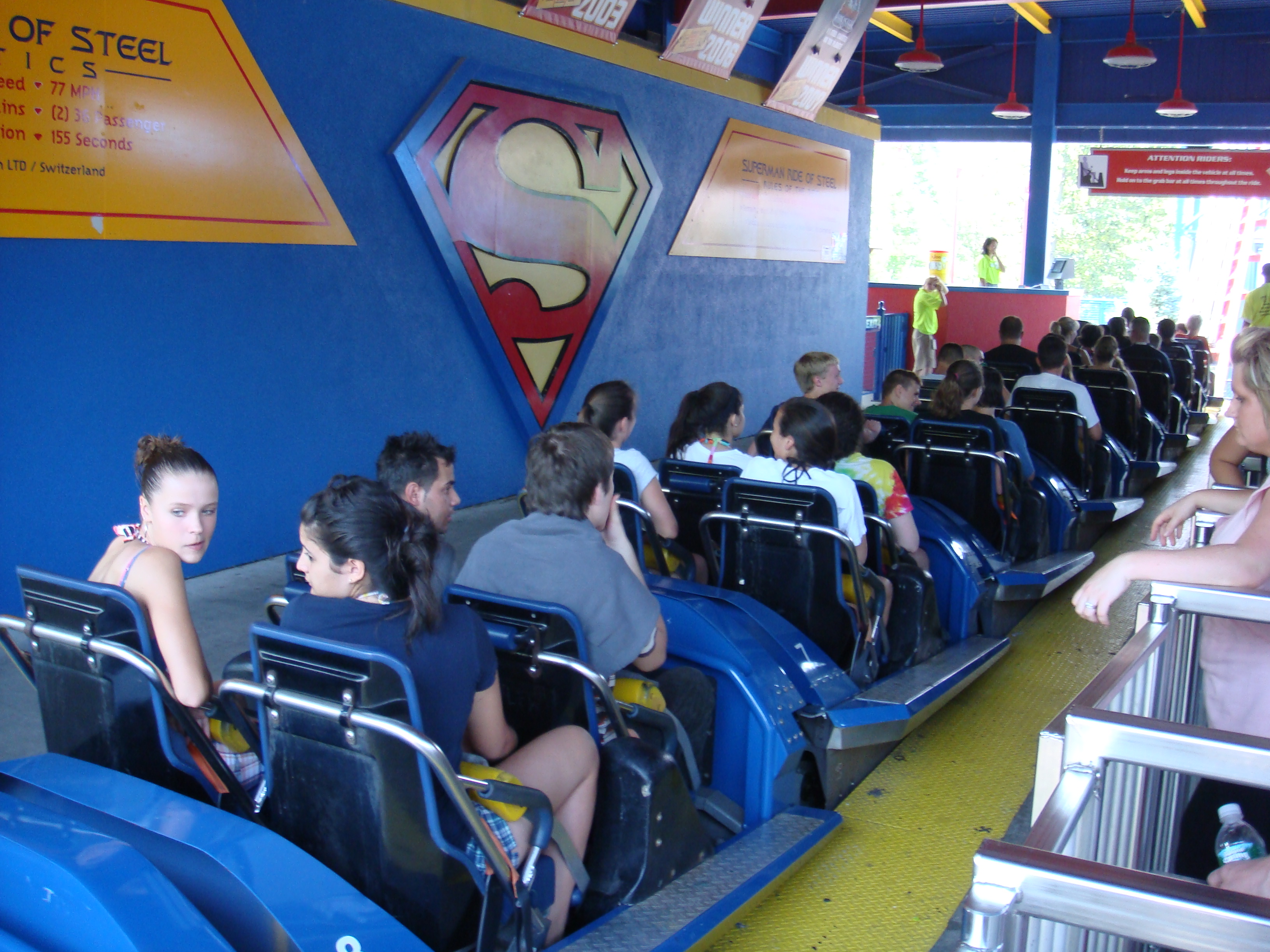 Superman Ride of Steel at Six Flags New England Trip June 2008 379